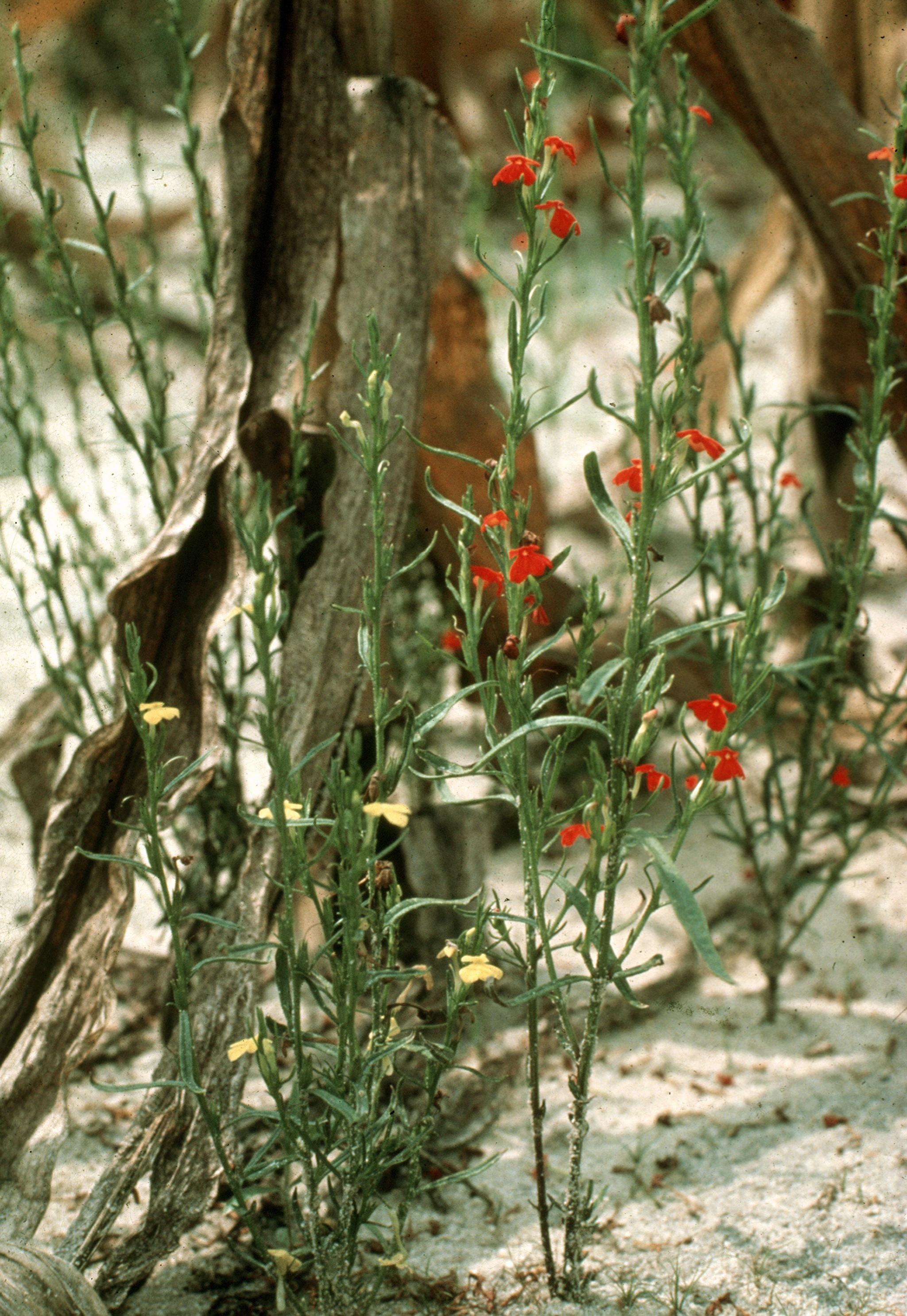 Photo of a Striga plant (witchweed). This is Striga asiatica (L.) Kuntze according to the 2002 source.